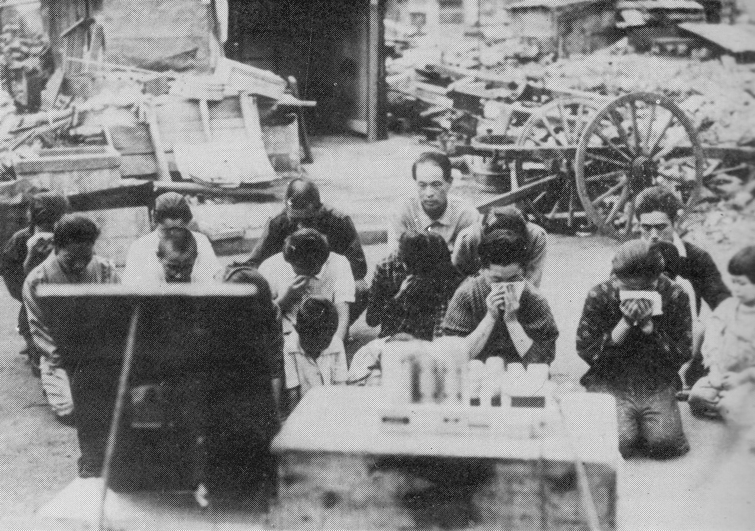 Japanese civilians listening to the broadcast of the Emperor reading the Imperial Rescript of Surrender